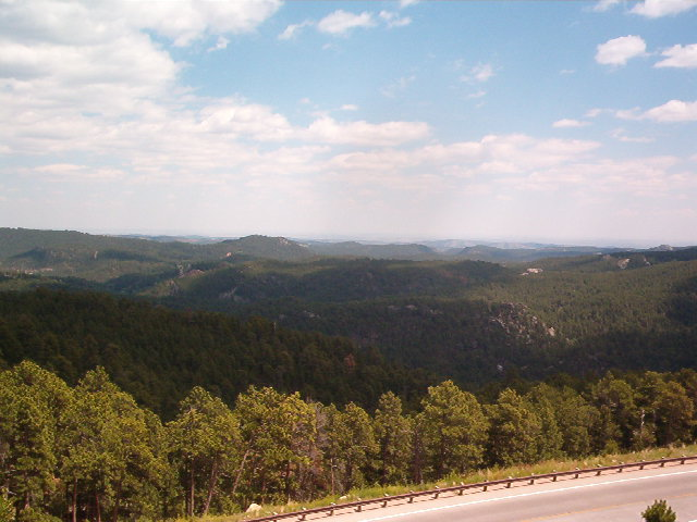 The Black Hills, as seen from near Mount Rushmore